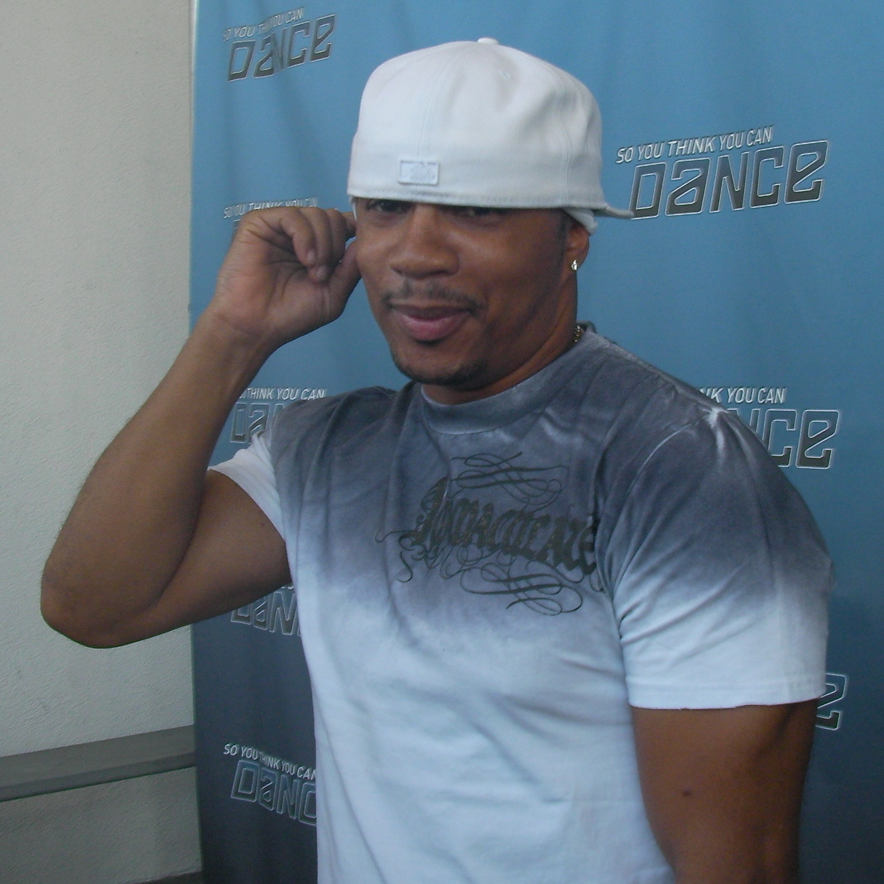 Choreographer Shane Sparks at the "So You Think You Can Dance" season four finale, backstage after the show